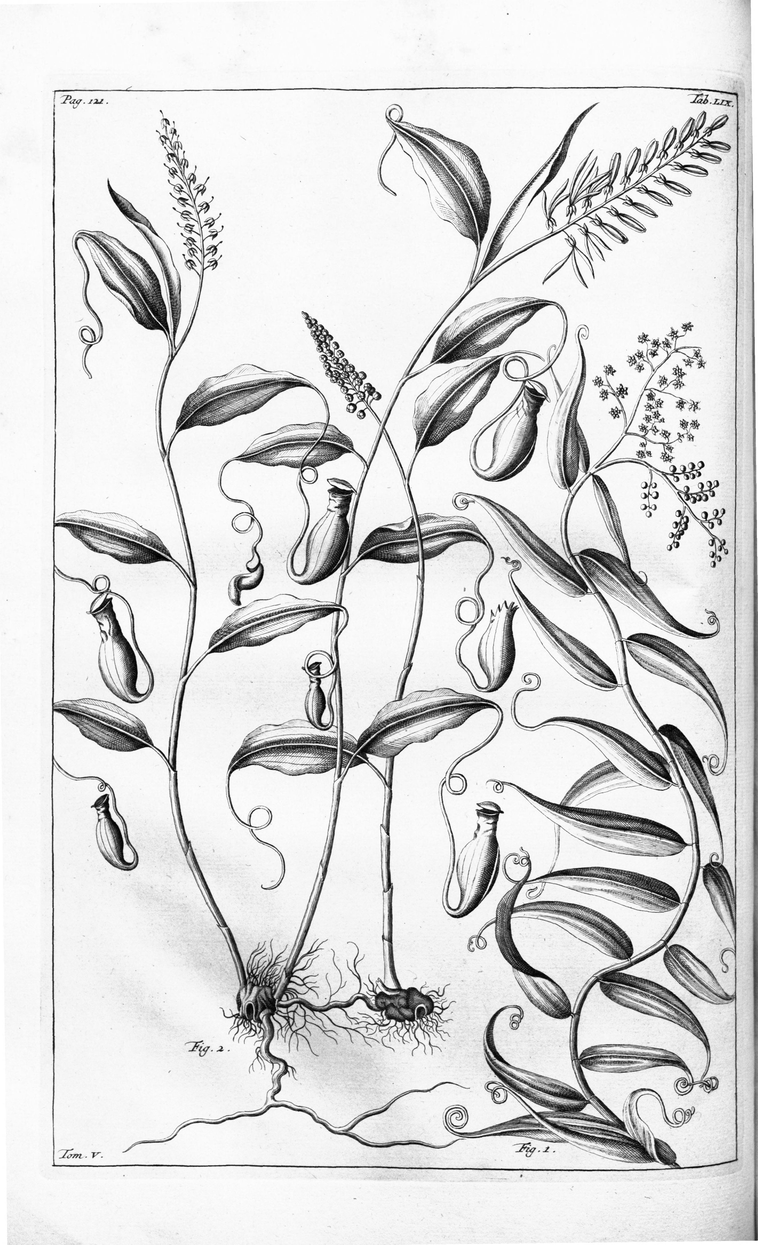 Cantharifera (?Nepenthes mirabilis) and Flagellaria indica from Herbarium amboinense, vol. 5: p. 121, t. 59, fig. 2 (1747)